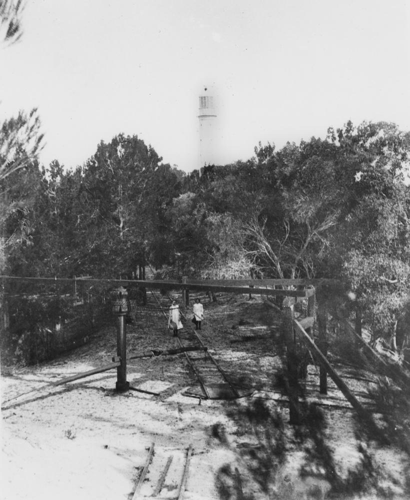 Whim at the Sandy Cape Lighthouse, Fraser Island, ca. 1903 Whim for hauling up lighthouse stores in background.